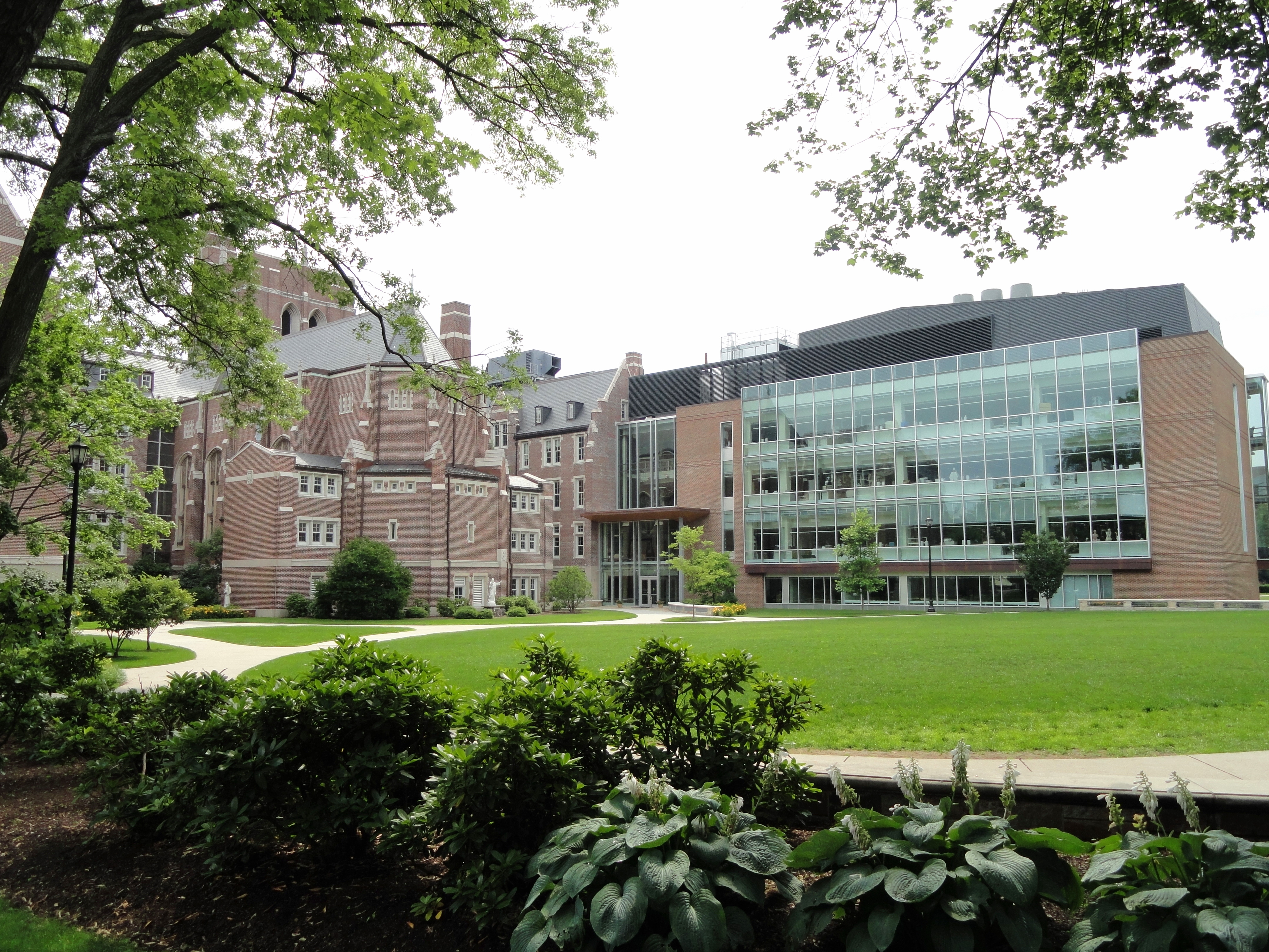 Emmanuel College, Maureen Murphy Wilkens Science Center